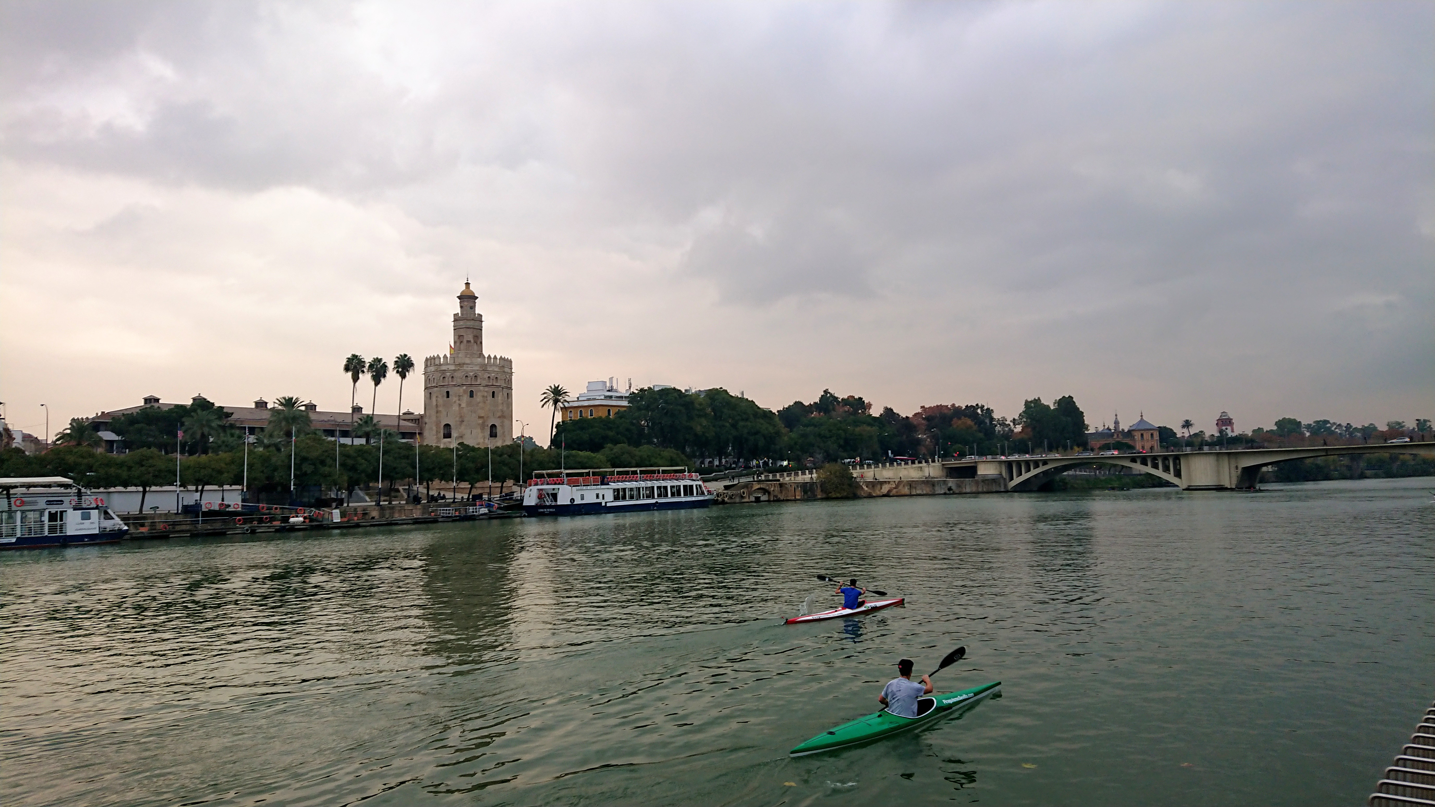 Guadalquivir river, Seville (Spain)